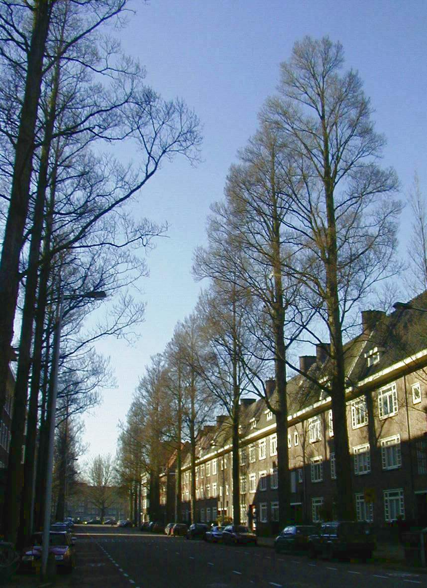 Ulmus minor 'Sarniensis' (Gerrit van der Veenstraat, Amsterdam); Photo by R. Nijboer